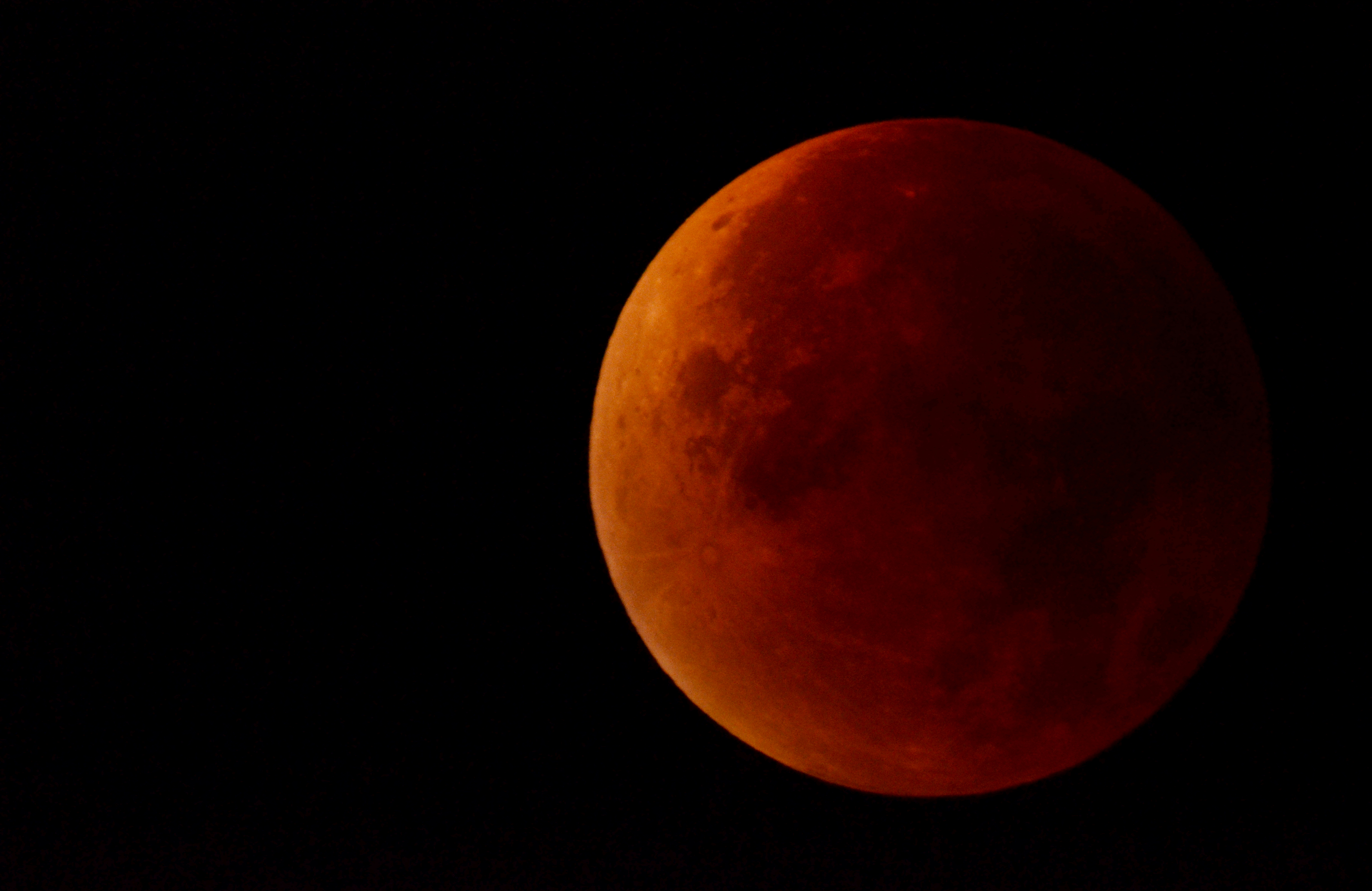 Bloody moon, Supermoon eclipse 2015 ,Maximum eclipse phase (Greece 28 September,06:00:54) The sunlight penetrates the Earth's atmosphere and shorter wavelengths are absorbed. The longer wavelengths cross the atmosphere, refract and incident on the Moon's surface , reflect on it and finally return to Earth as we enjoy a magnificent "Bloody Moon" ! The shot was taken at Crete island, Greece. Camera Model Nikon D5100 with Telescope Dob 8" (200mm aperture, 1200mm focal length)